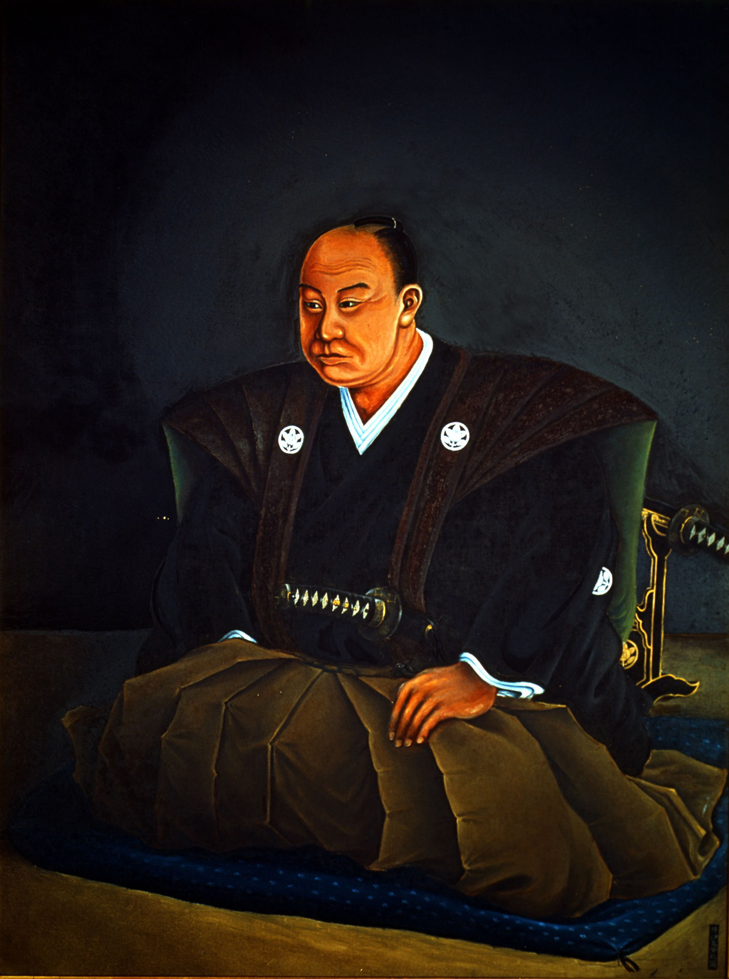 Portrait of Ii Naosuke painted by Ii Naoyasu (Naosuke's son). He was a daimyō of Hikone Domain (1850–1860) and also Tairō of the Tokugawa shogunate (April 23, 1858 - March 24, 1860).